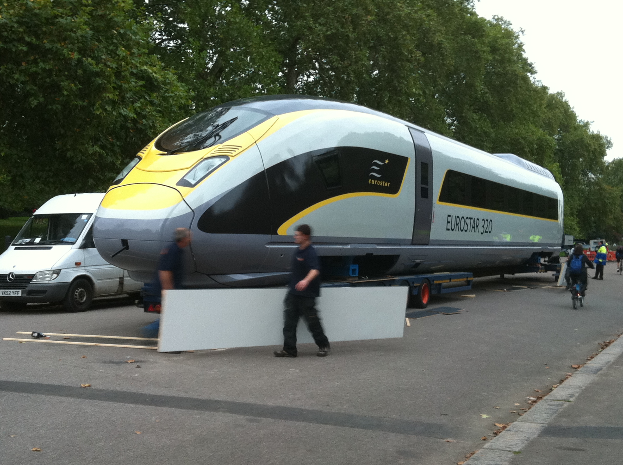 Eurostar e320 at Kensington Gardens